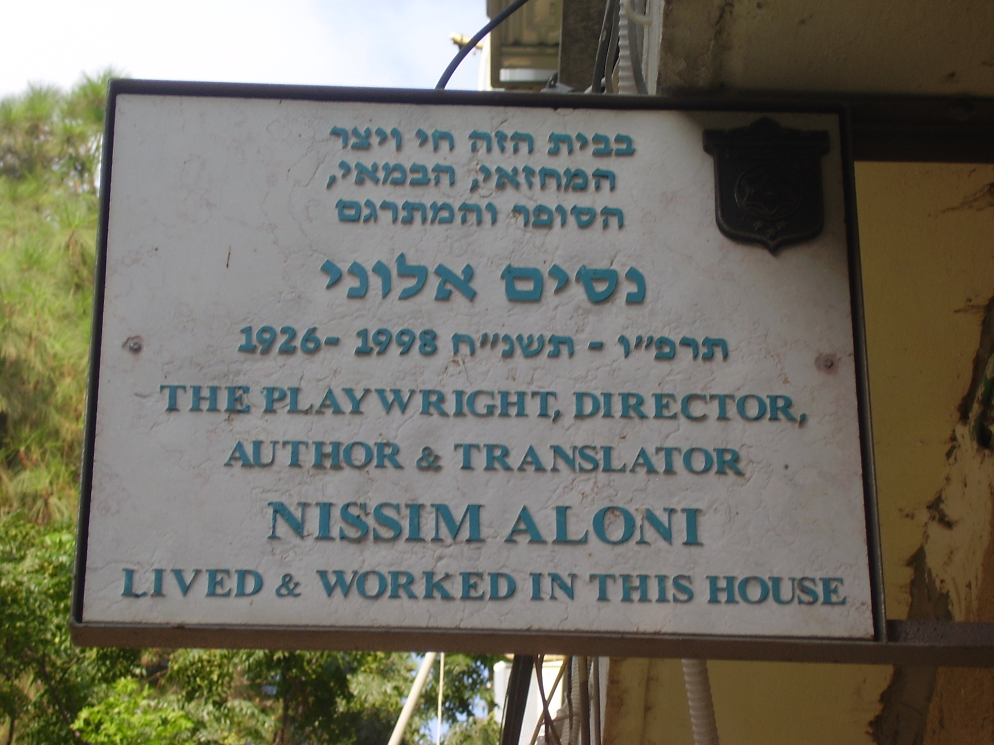 plaque meorial on the writer nissim aloni house in tel aviv לוחית זיכרון על ביתו של ניסים אלוני ברח' דיזנגוף 225 בתל אביב